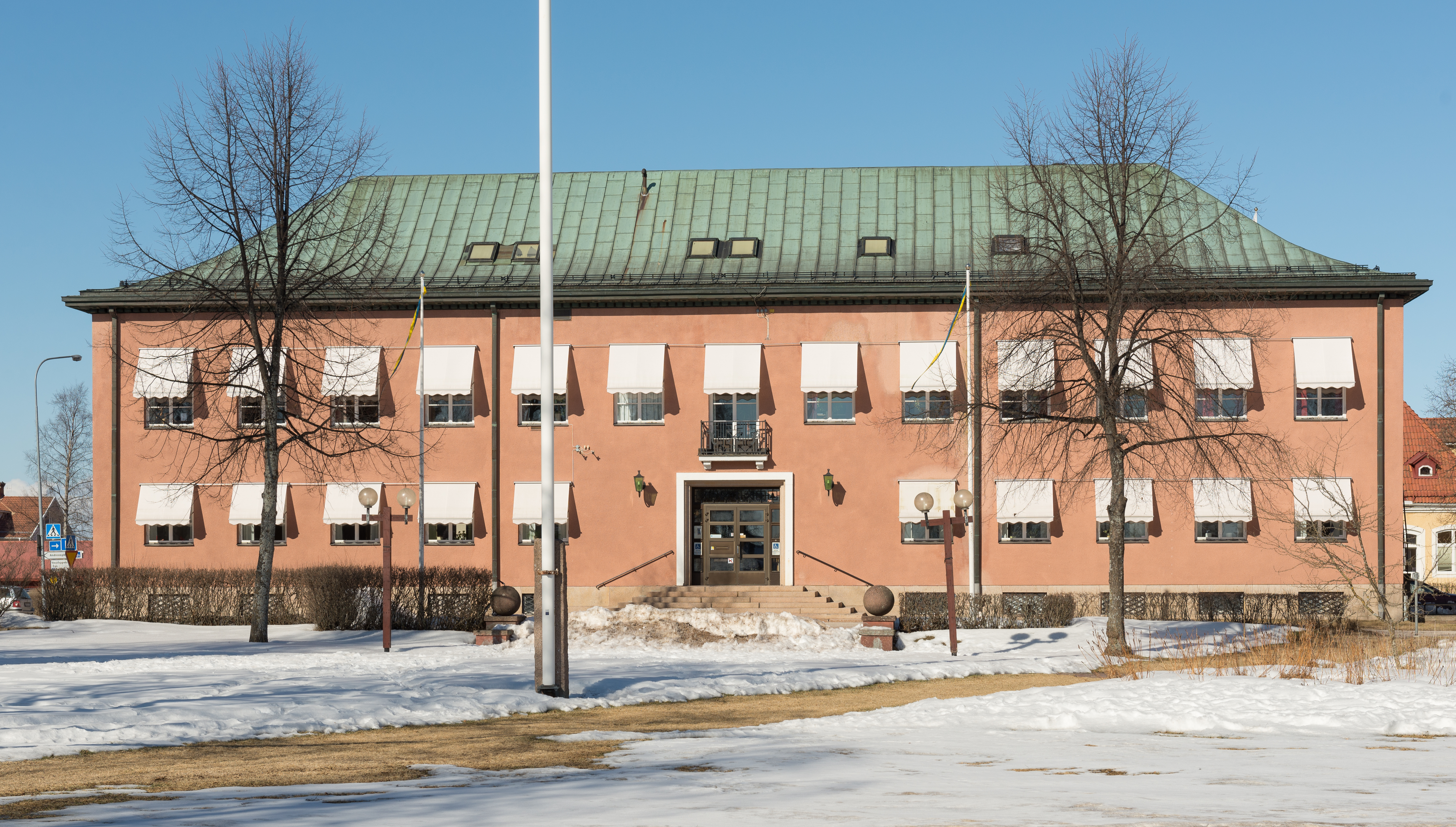 Kommunledningskontoret, Mora.